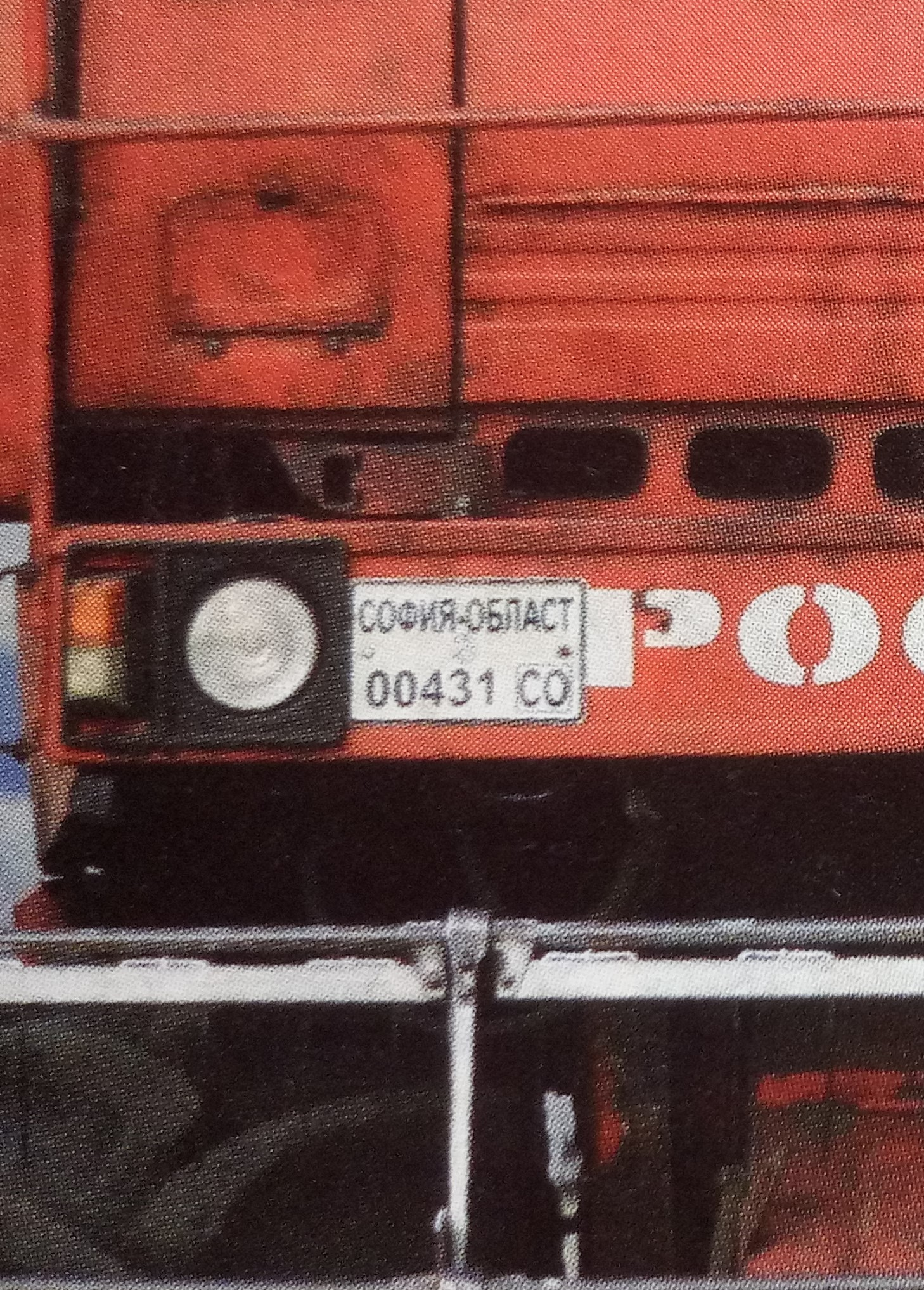 Above is written the name of the region in Bulgarian and Cyrillic characters; below there are the 5-digits numbering and the initials of the registration area (Sofia region)